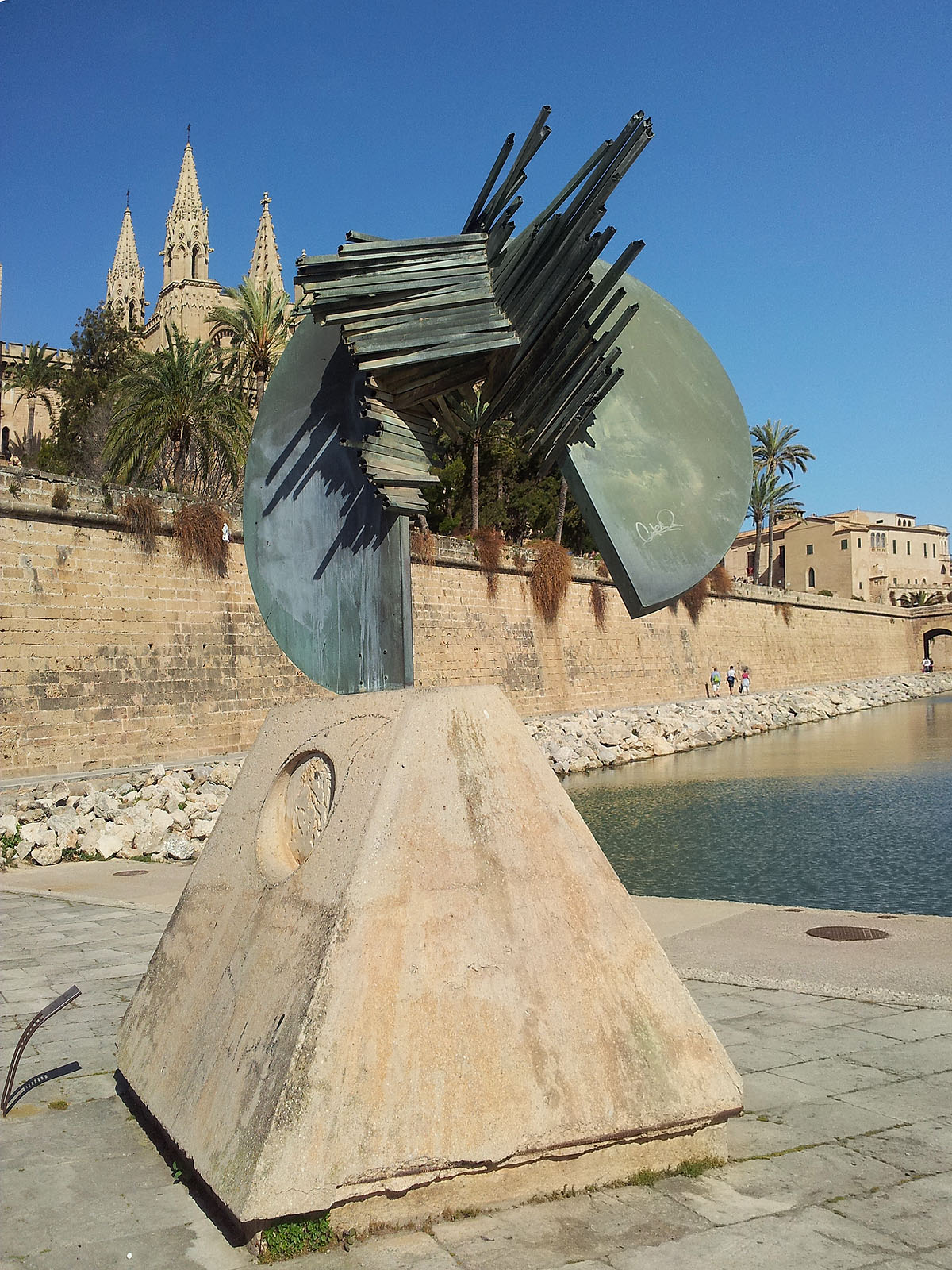 Enrique Broglia, Hacia el Sur, 1984, Palma de Mallorca, Parc de la Mar